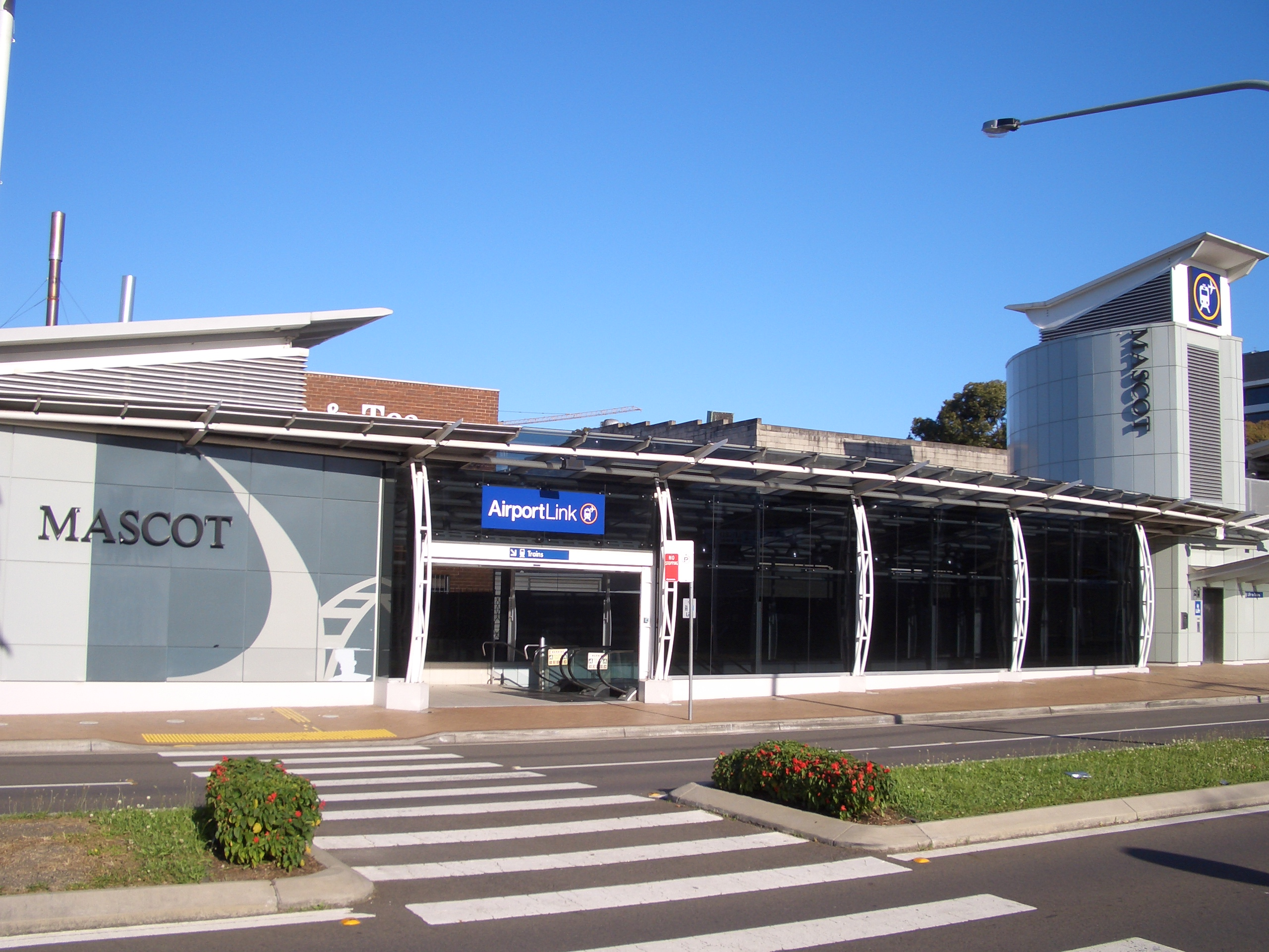 Mascot Railway Station, Sydney